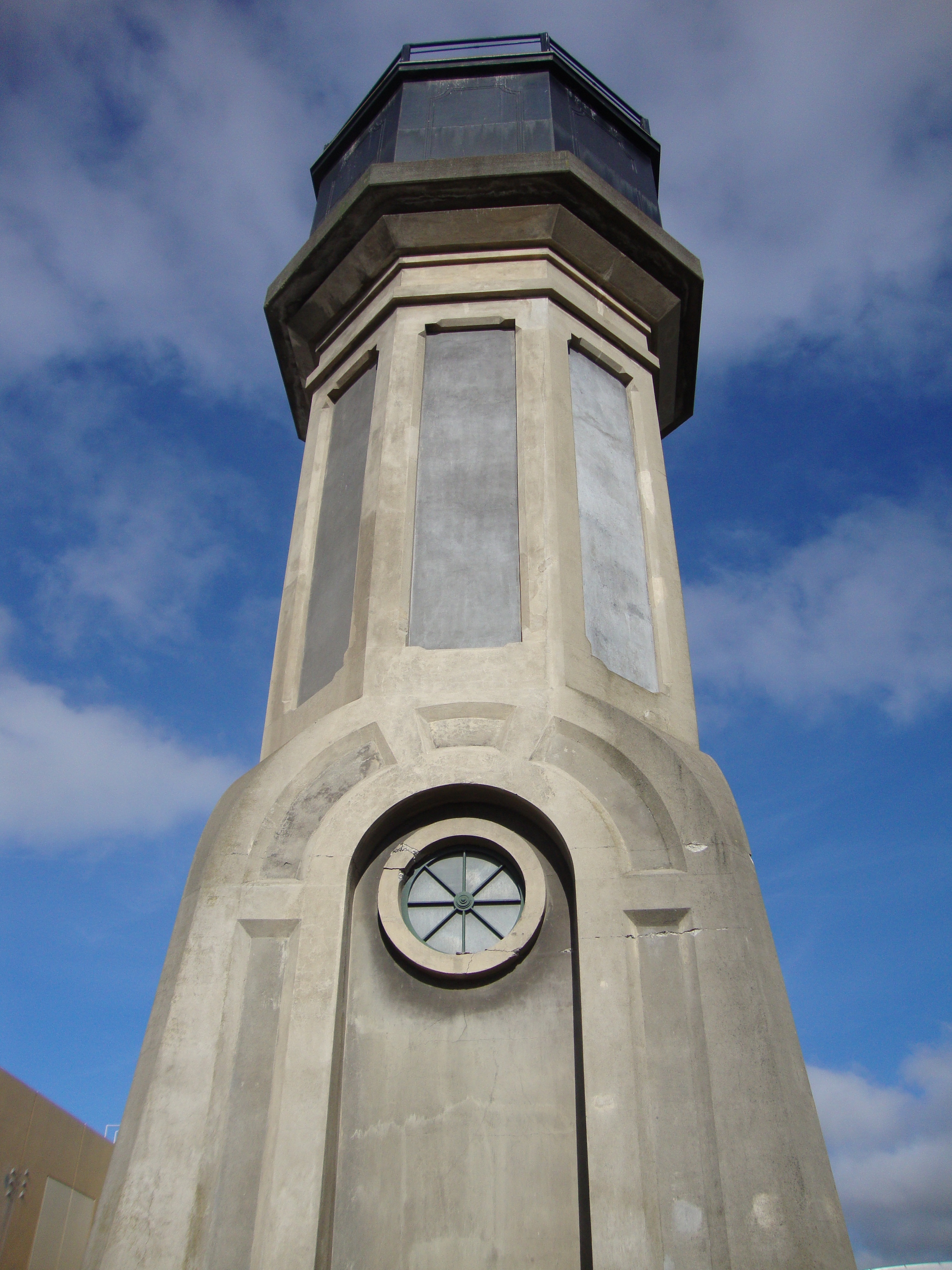 NZHPT Category I, registration number 5390.